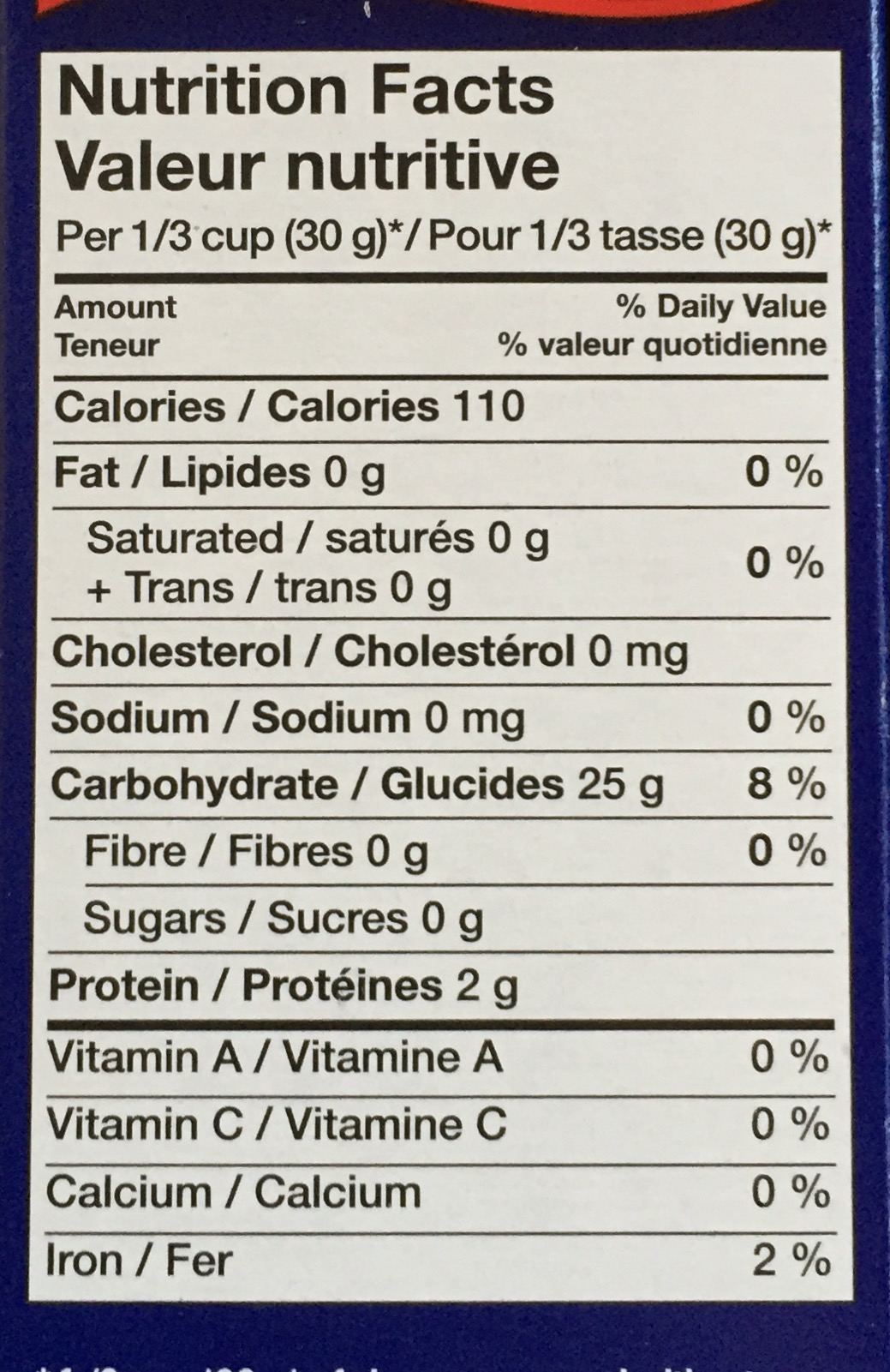 A government-mandated nutrition facts label from Canada.